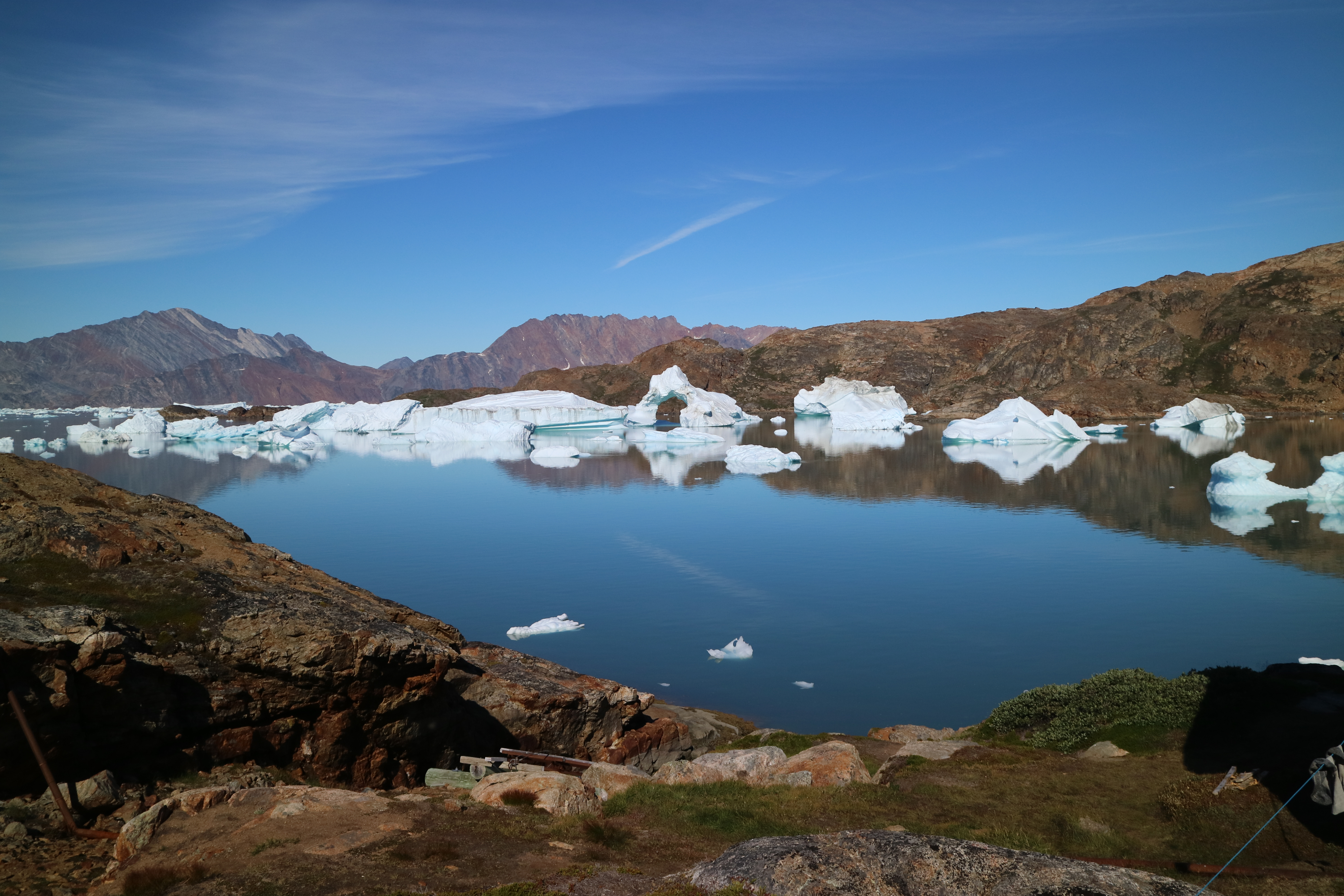 Icebergs at Sermilik station, Ammassalik Island, South East Greenland